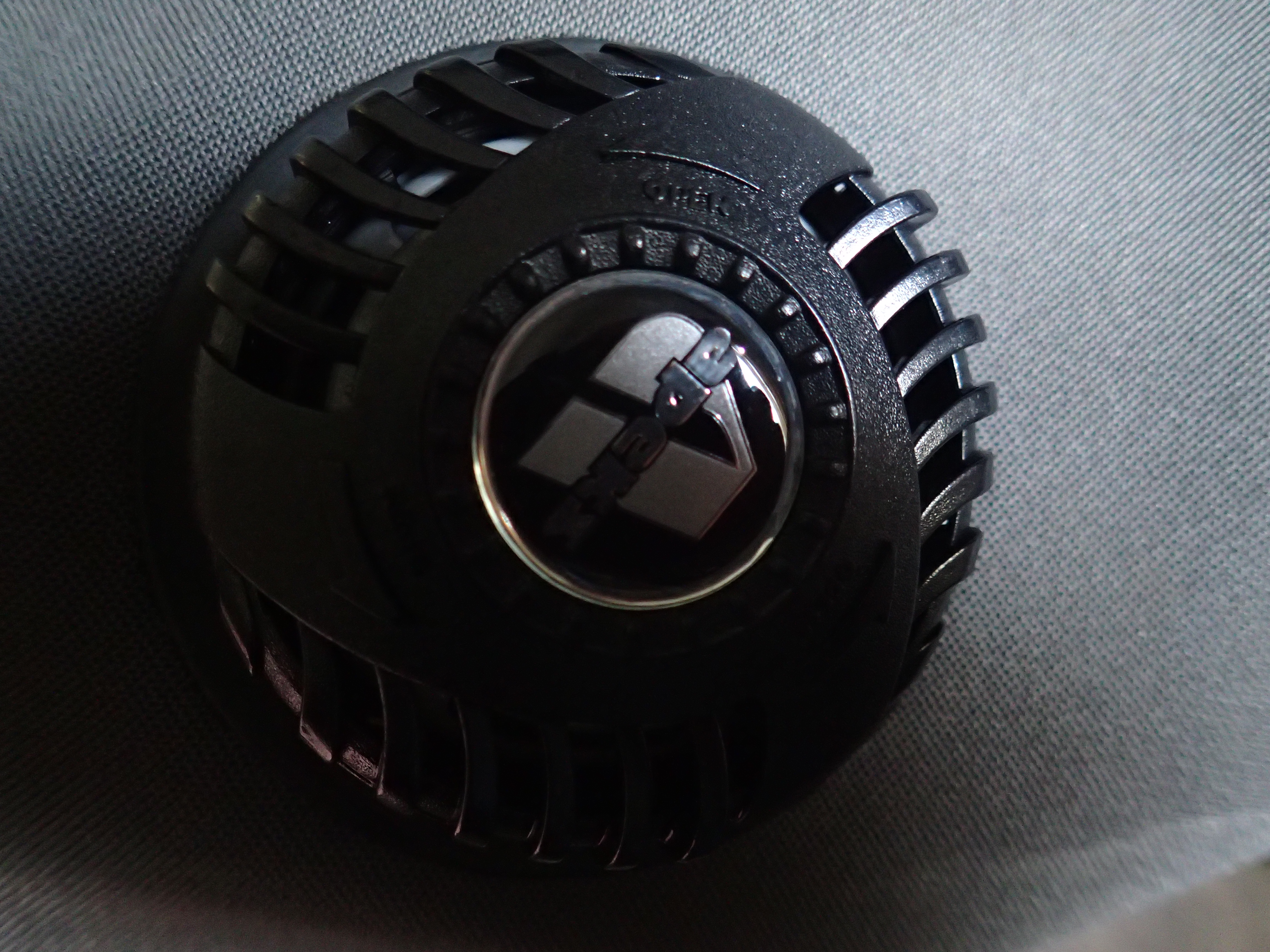 Apeks dry suit auto dump valve on O'Three neoprene suit